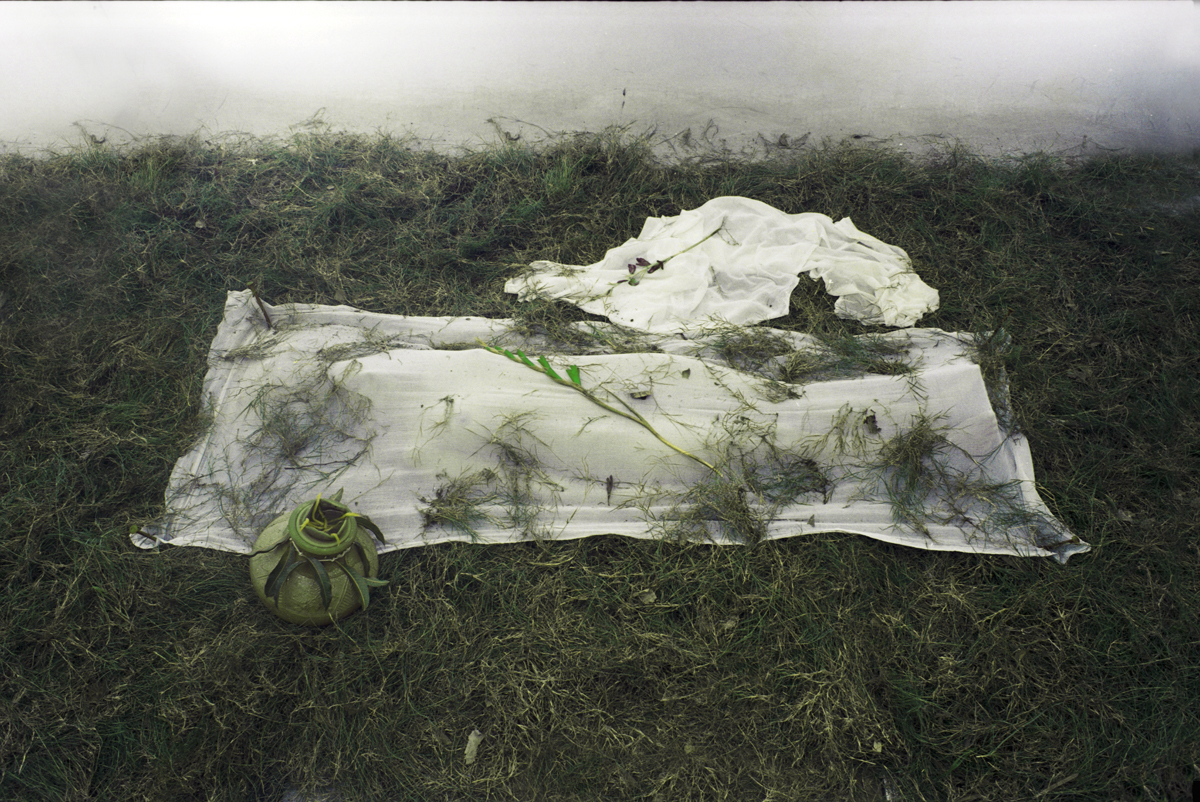 This work is from Conceptual Art Collection by Contemporary Indian Artist Diwan Manna, from Shores of the Unknown New 13